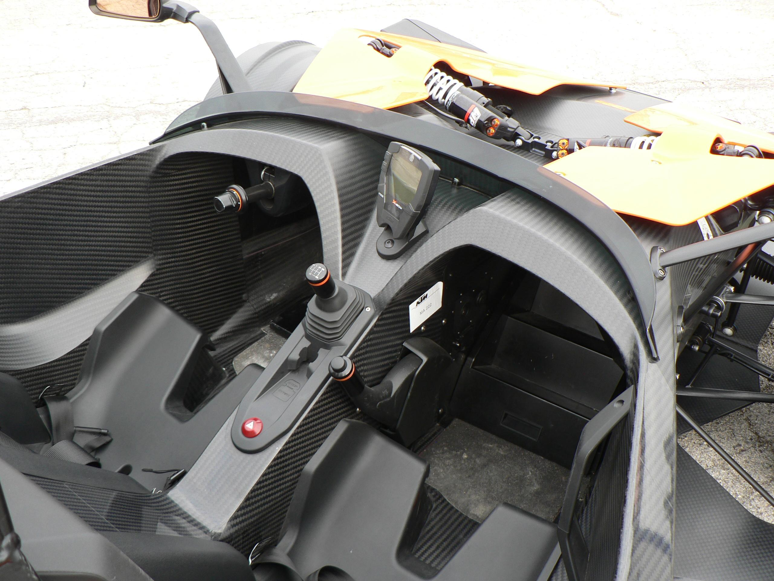 Cockpit of a KTM X-Bow